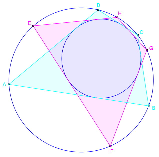 Poncelet's closure theorem for quadrilaterals.